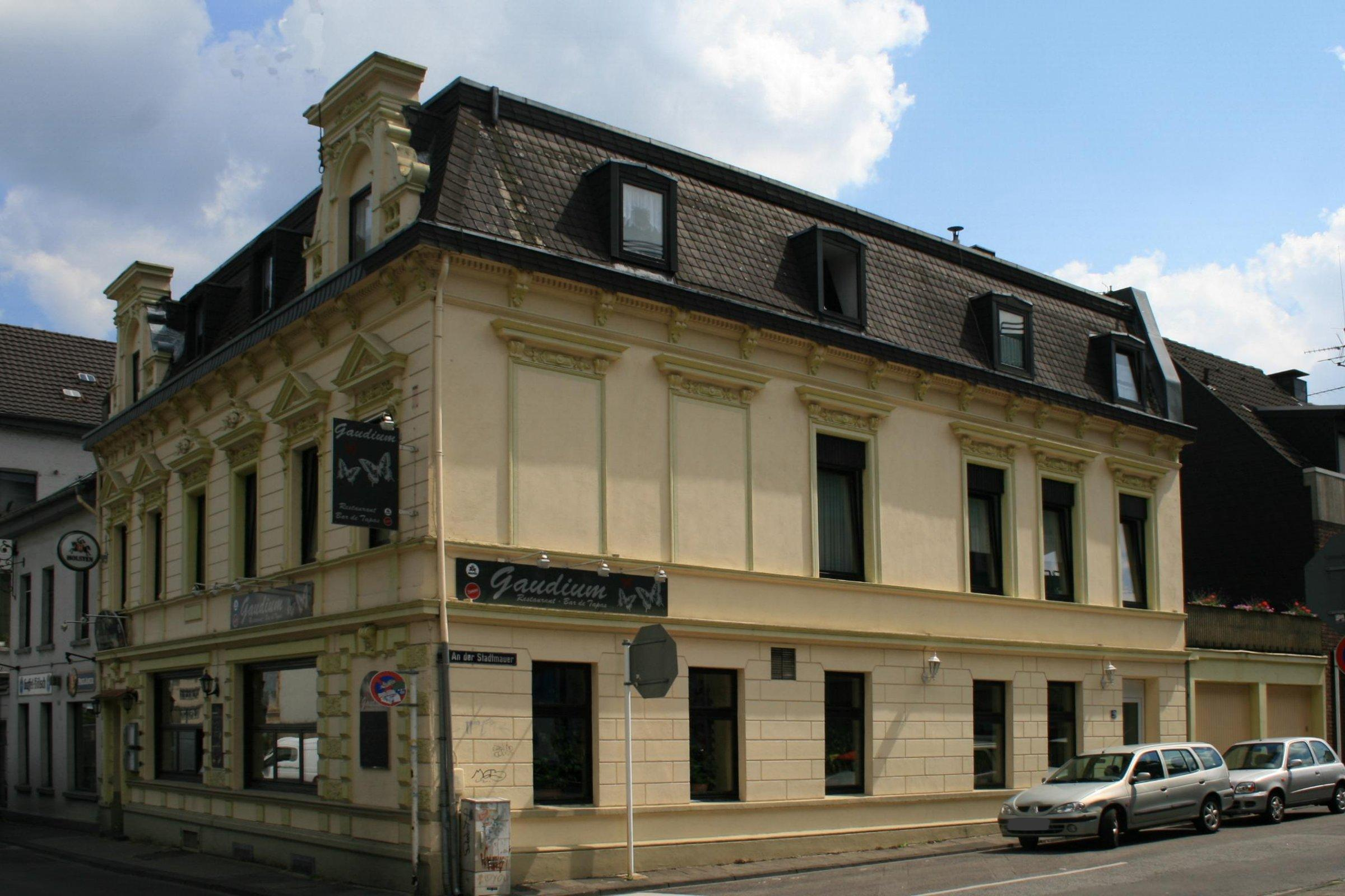 Cultural heritage monument No. M 008 in Mönchengladbach